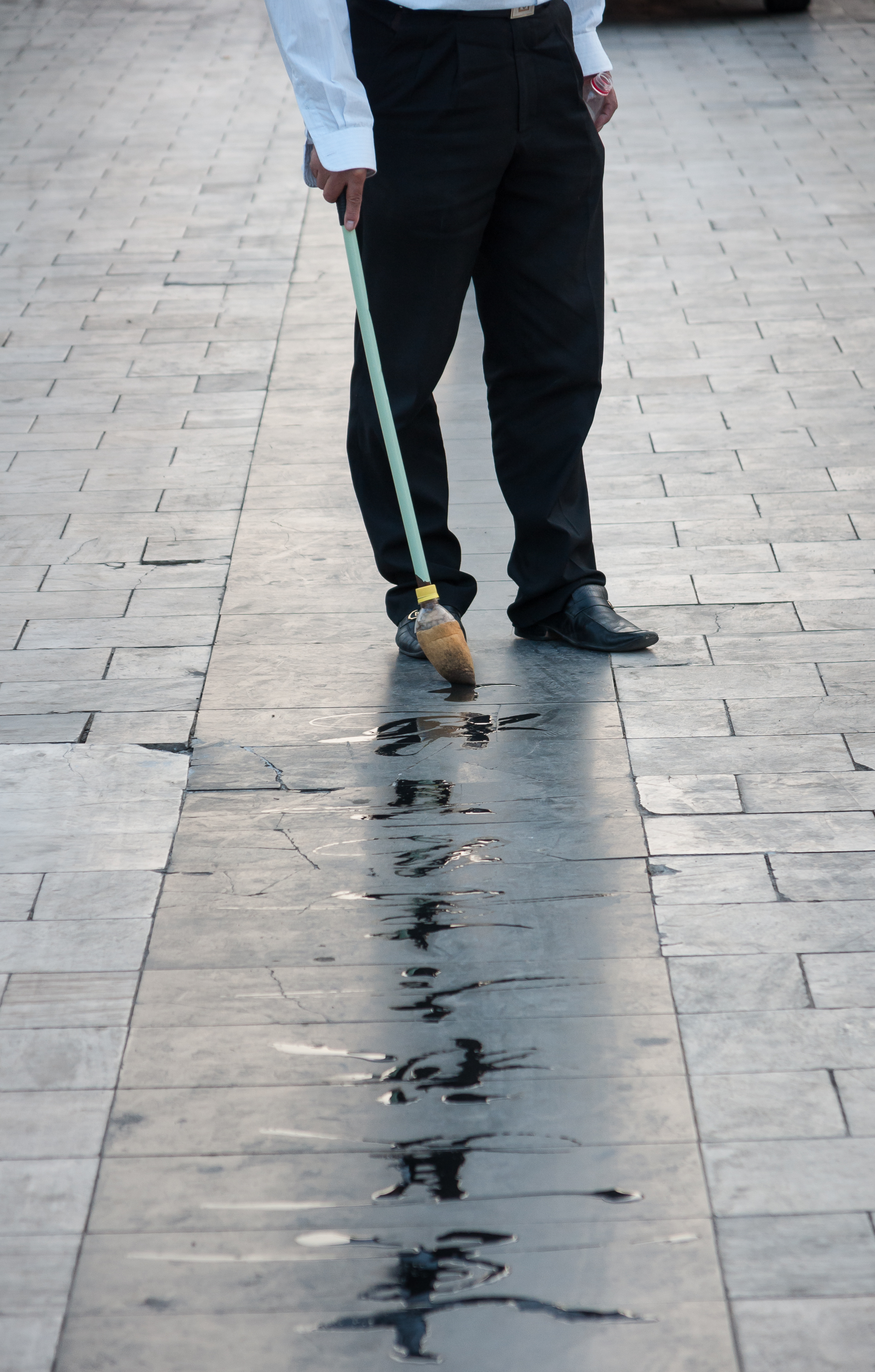 Dalian Liaoning China: A man, lost in his water calligraphy drawing in the Zhongshan Square Park in Dalian